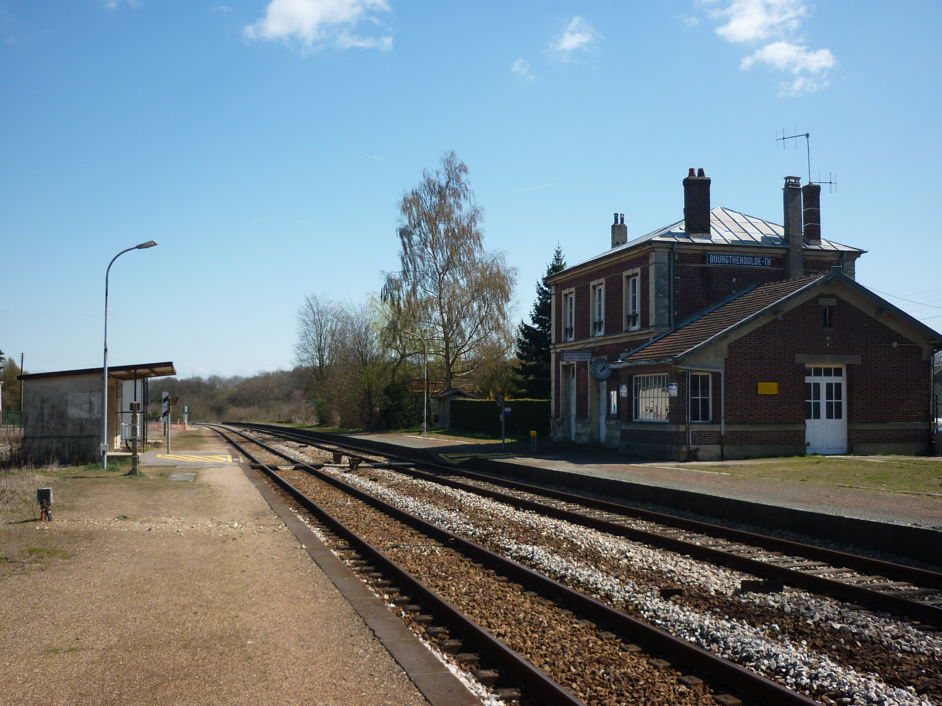 The train station Bourgtheroulde - Thuit-Hébert lies in the town of Thuit-Hébert in proximity of Bourgtheroulde. It's one of the train stations of the railroad line Rouen – Bernay – Caen.